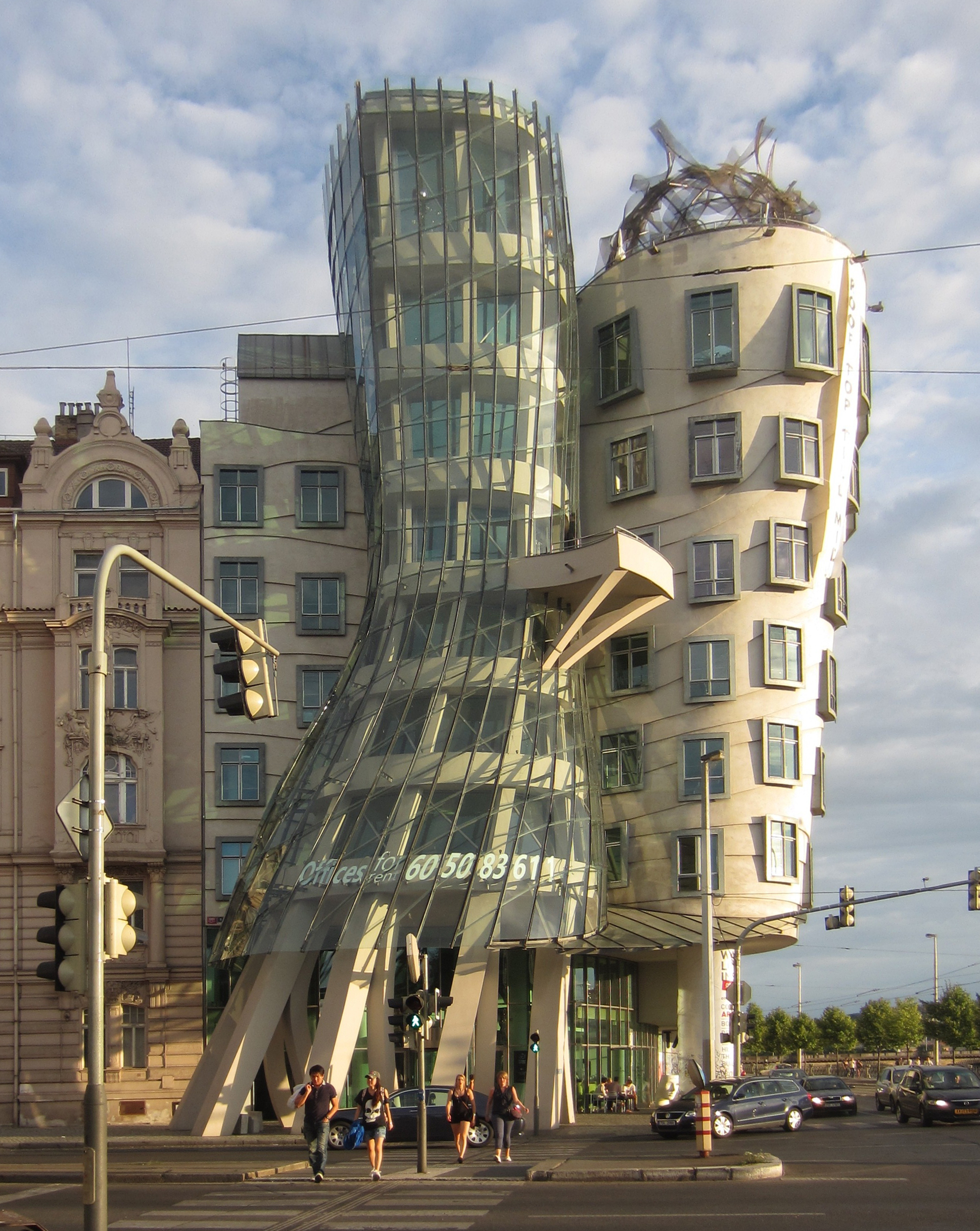 "Dancing House" in Prague